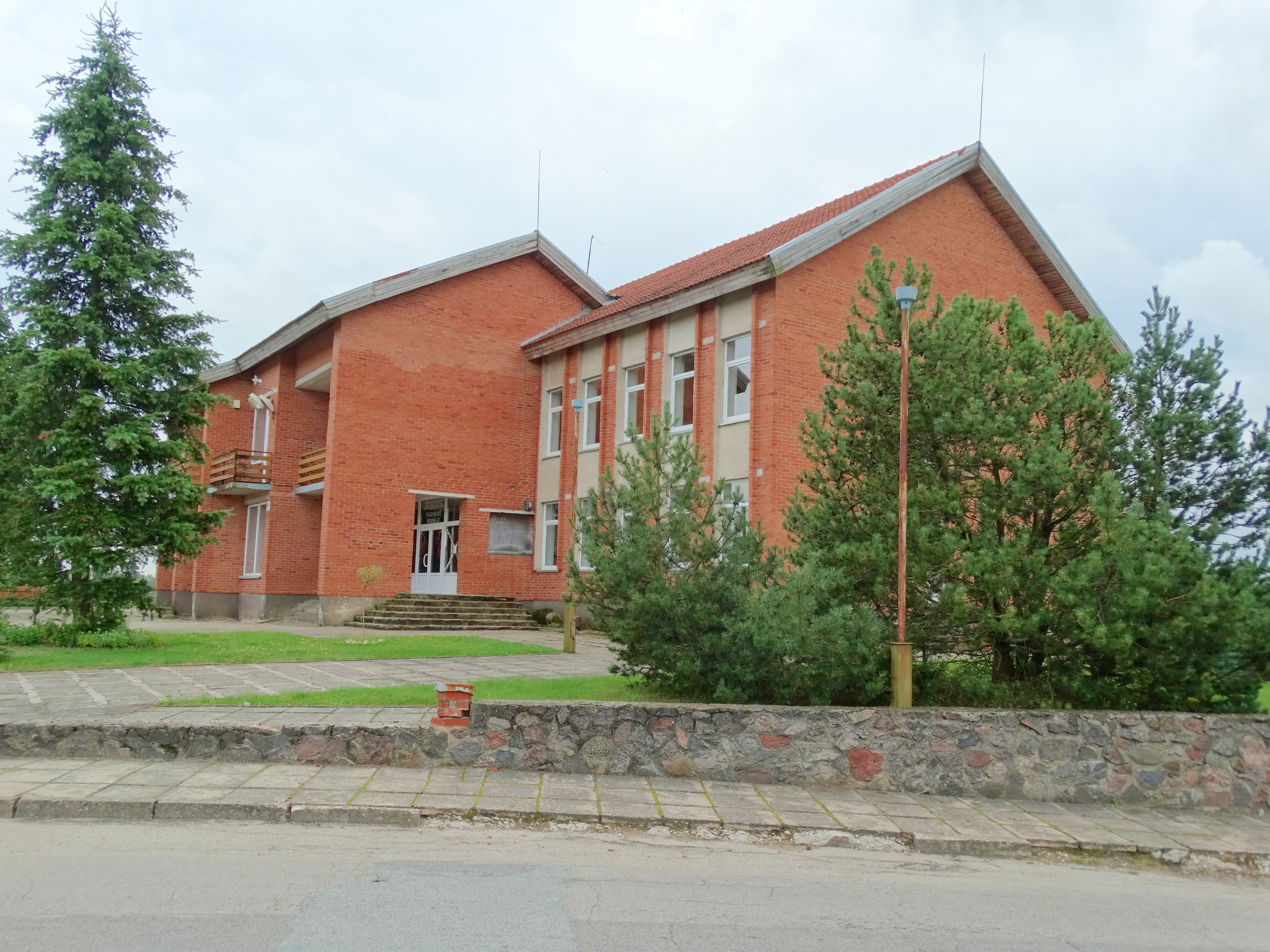 Daubiškiai Basic School in Palnosai, Mažeikiai district, Lithuania